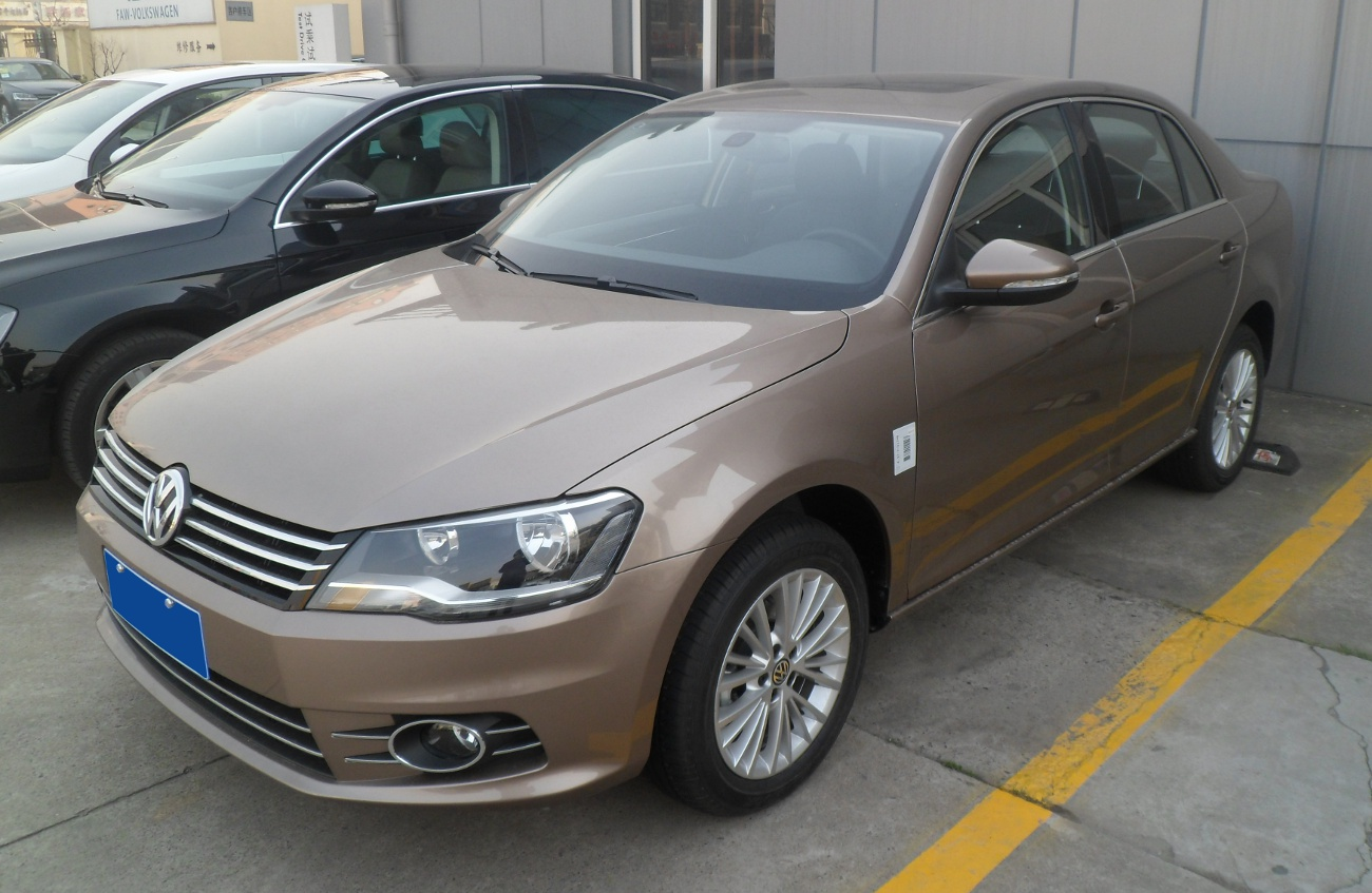 Volkswagen Bora CN II facelift photographed in Shanghai, China.